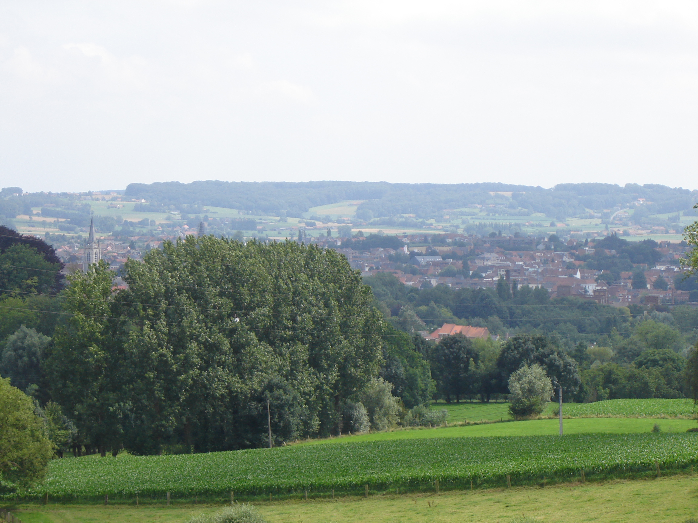 View on the city of Ronse and landscape. Ronse, East Flanders, Belgium.